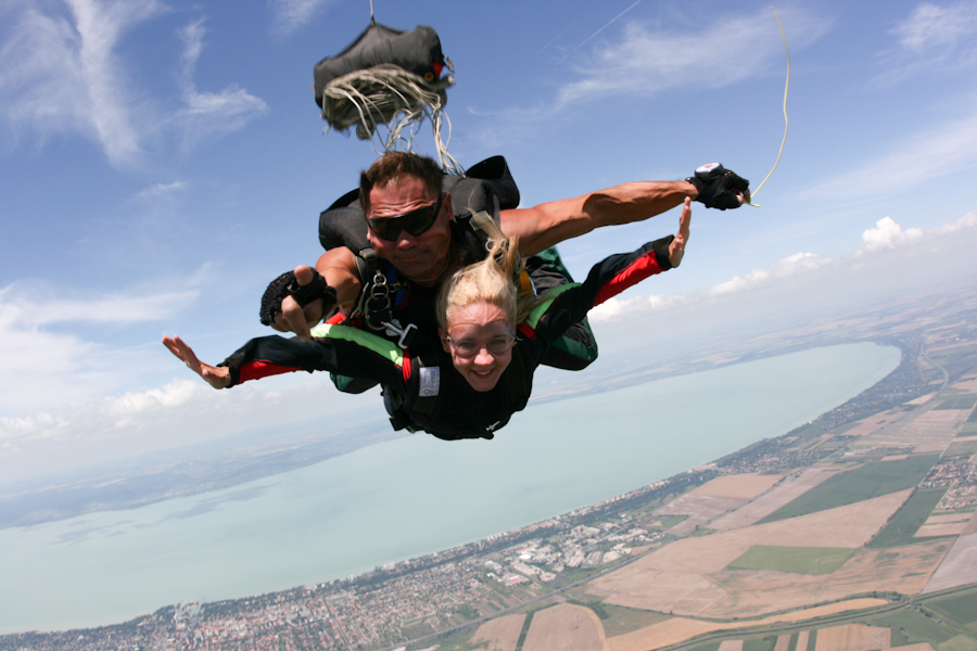 Tanden skydive over lake Balaton